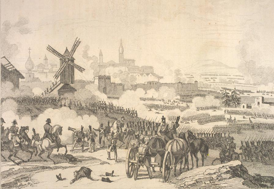 Battle and taking of Smolensk(Russia) by Napoleon's troops in 1812. From FRANCE MILITAIRE. // Martinet del. // Couché Sculp